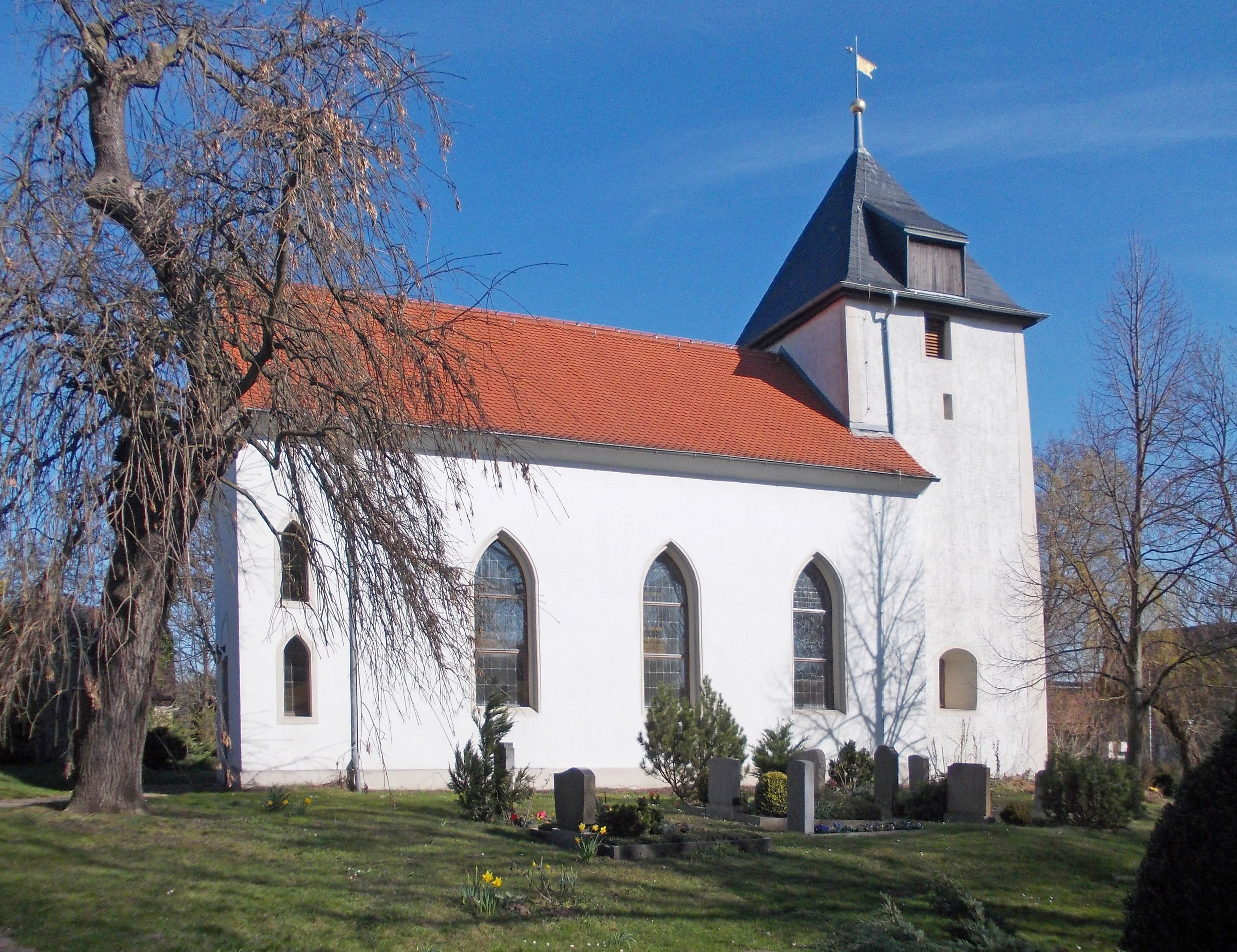 Göbschelwitz church (Leipzig, Saxony)